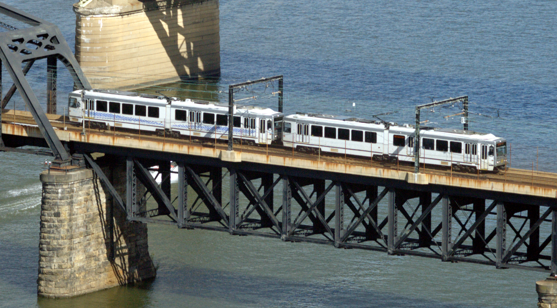 Pittsburgh Light Rail, as seen from Mount Washington.